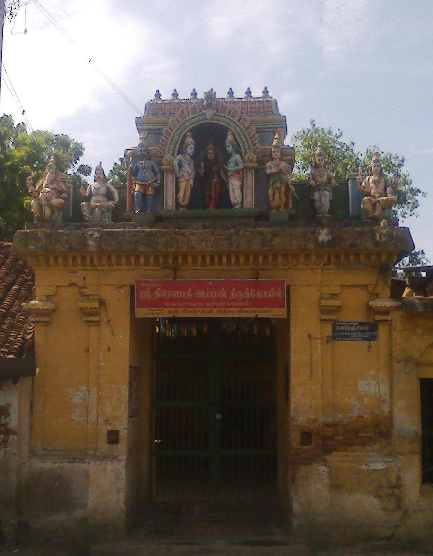 Kumbakonam Madhagadi Street Draupathy கும்பகோணம் மதகடித்தெரு திரௌபதியம்மன் கோயில்